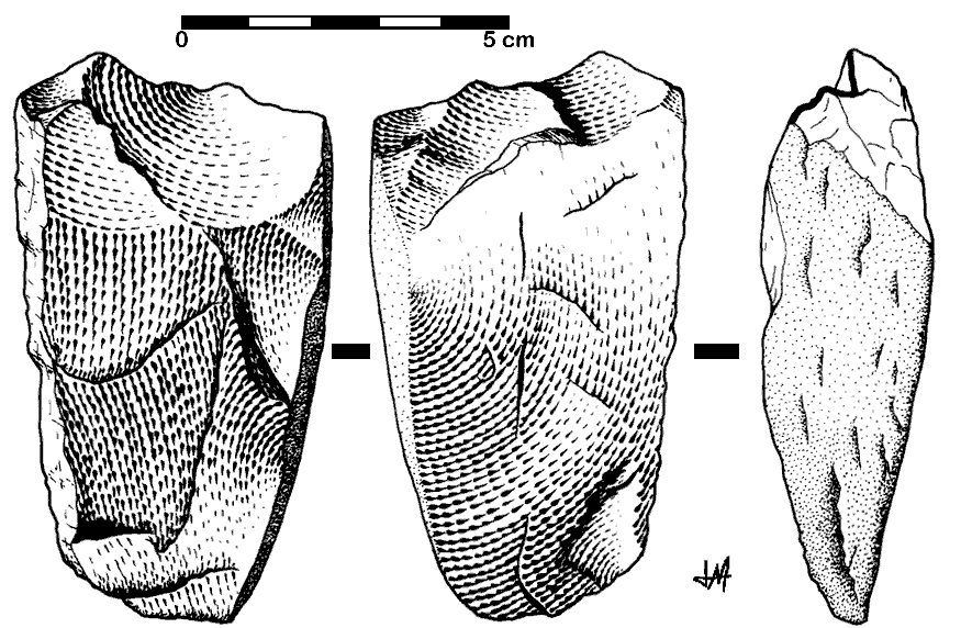 Chopping tool on a flake that proceeds from a superficial site in the Valladolid province (Spain), in the Douro valley.